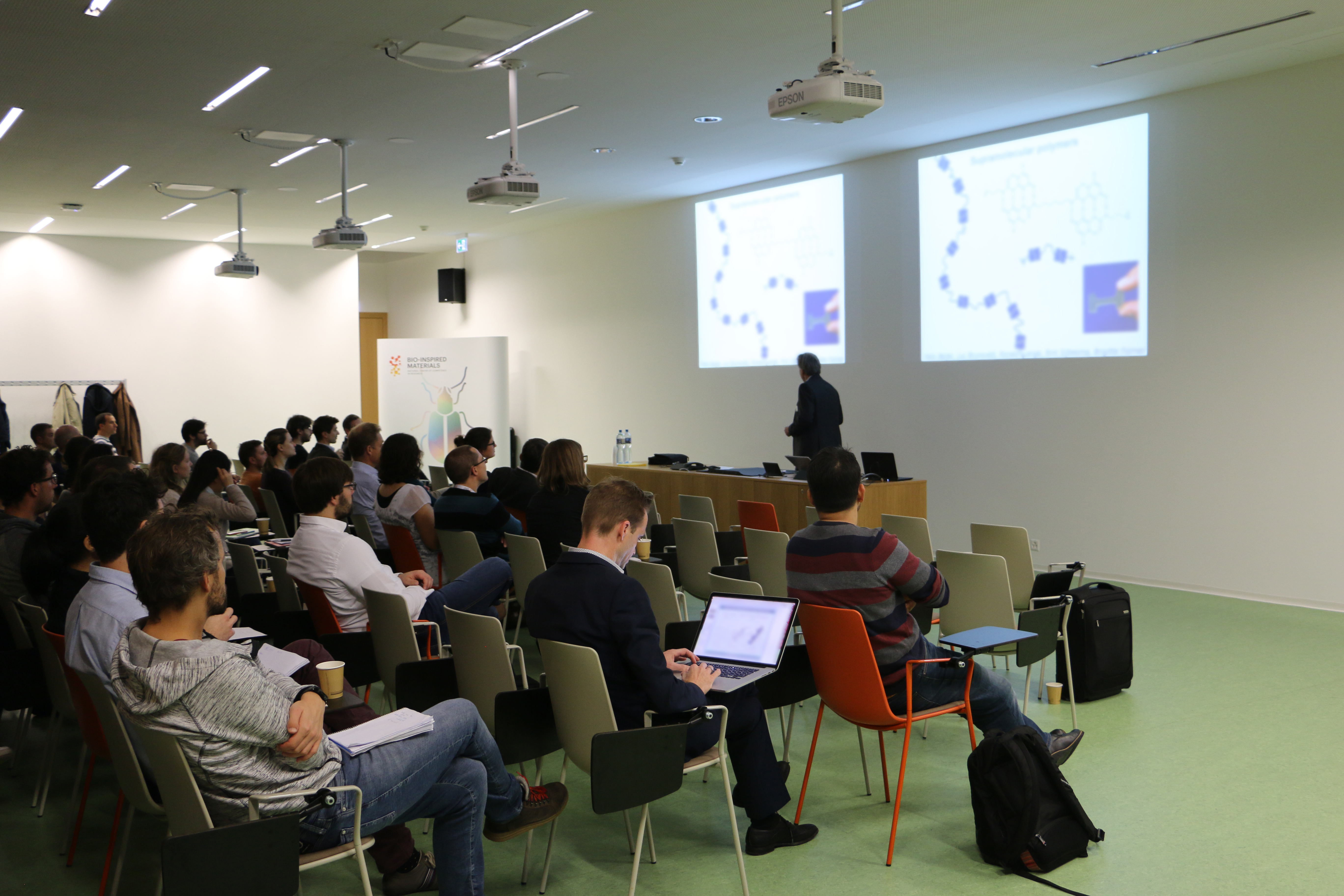 A scientific talk presented at Adolphe Merkle Institute.